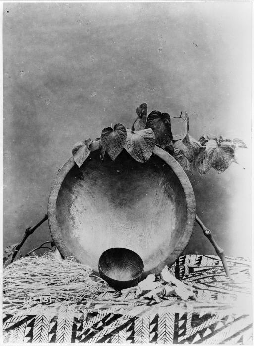 Tanoa (kava bowl) of Samoa. Gagana Samoa: Le tanoa Samoa, ipu ma lau 'ava.